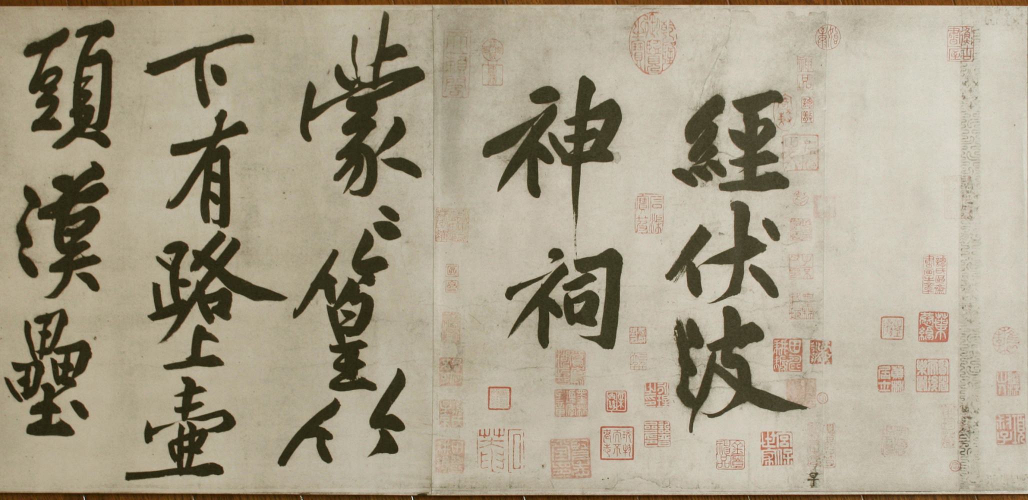 Fu_Bo_Shen_Ci, calligraphy, 33.6cm height, ink on paper, hand scroll, opening part, ACE1101, in EISEI-BUNKO, Tokyo